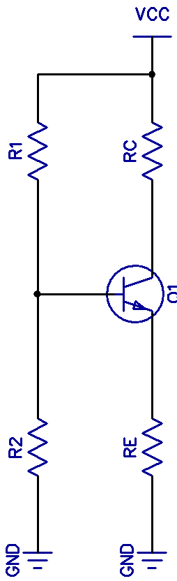 The DC equivalent circuit of the common-emitter amplifier with voltage-dicider bias